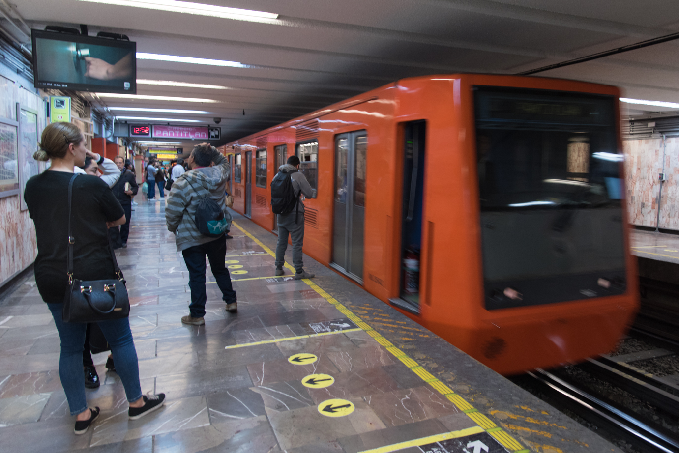 A NE-92 train arriving to the Line 1 platforms of Metro Balderas in Mexico City, February 2019